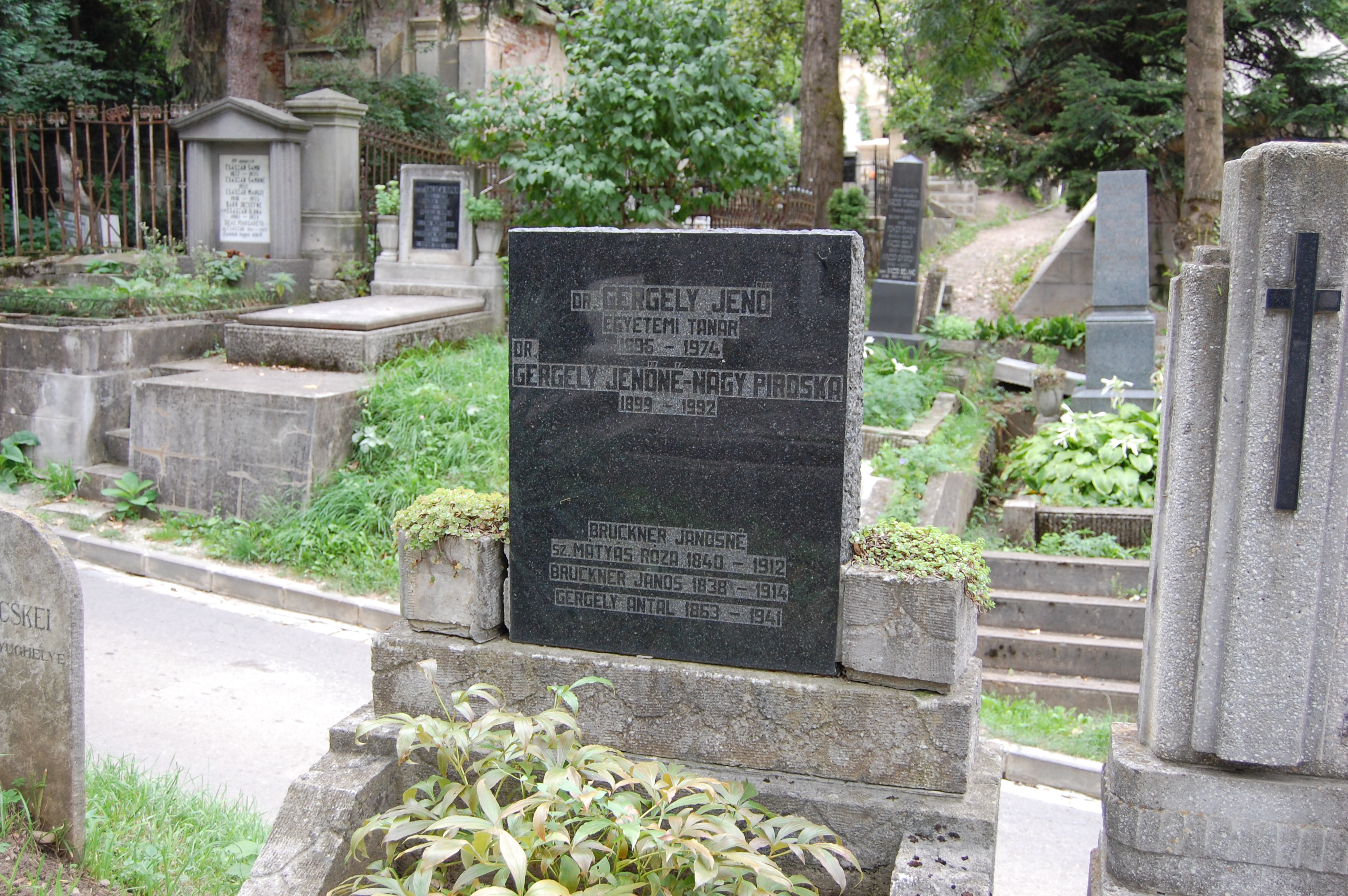 Tomb of the mathematician Gergely Jenő (Eugen) in Házsongárd cemetery